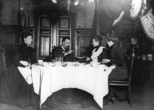 From Nationalmuseets Klunkehjem: Familien ved det dækkede spisebord, ca. 1905190